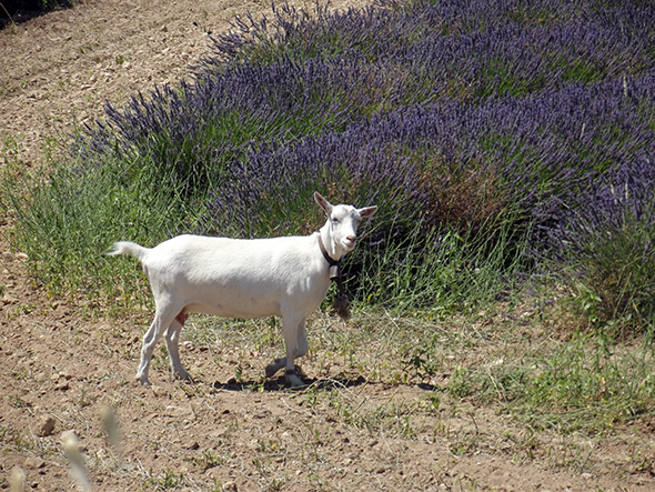 I made this photo for a blog post about the benefits of lavender: You can use it, but please link back to the original post. Thanx!